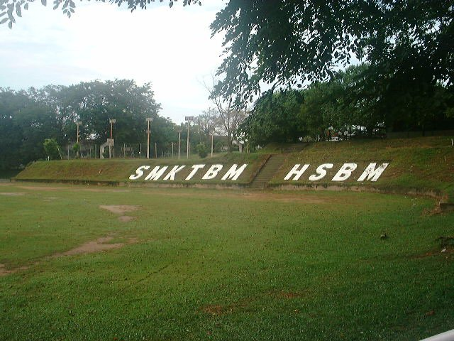 See also: HSBM homepage